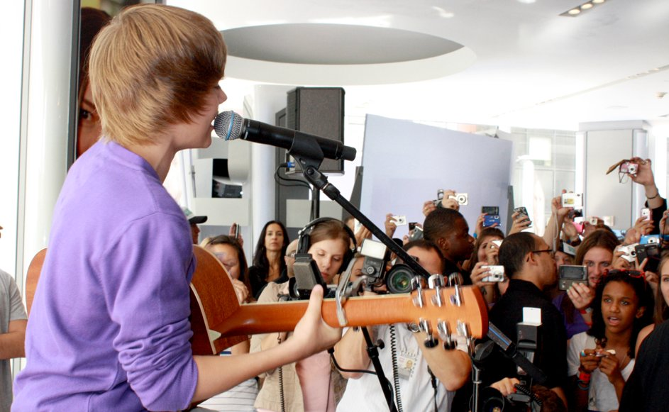 Justin Bieber performing at Nintendo World Store.